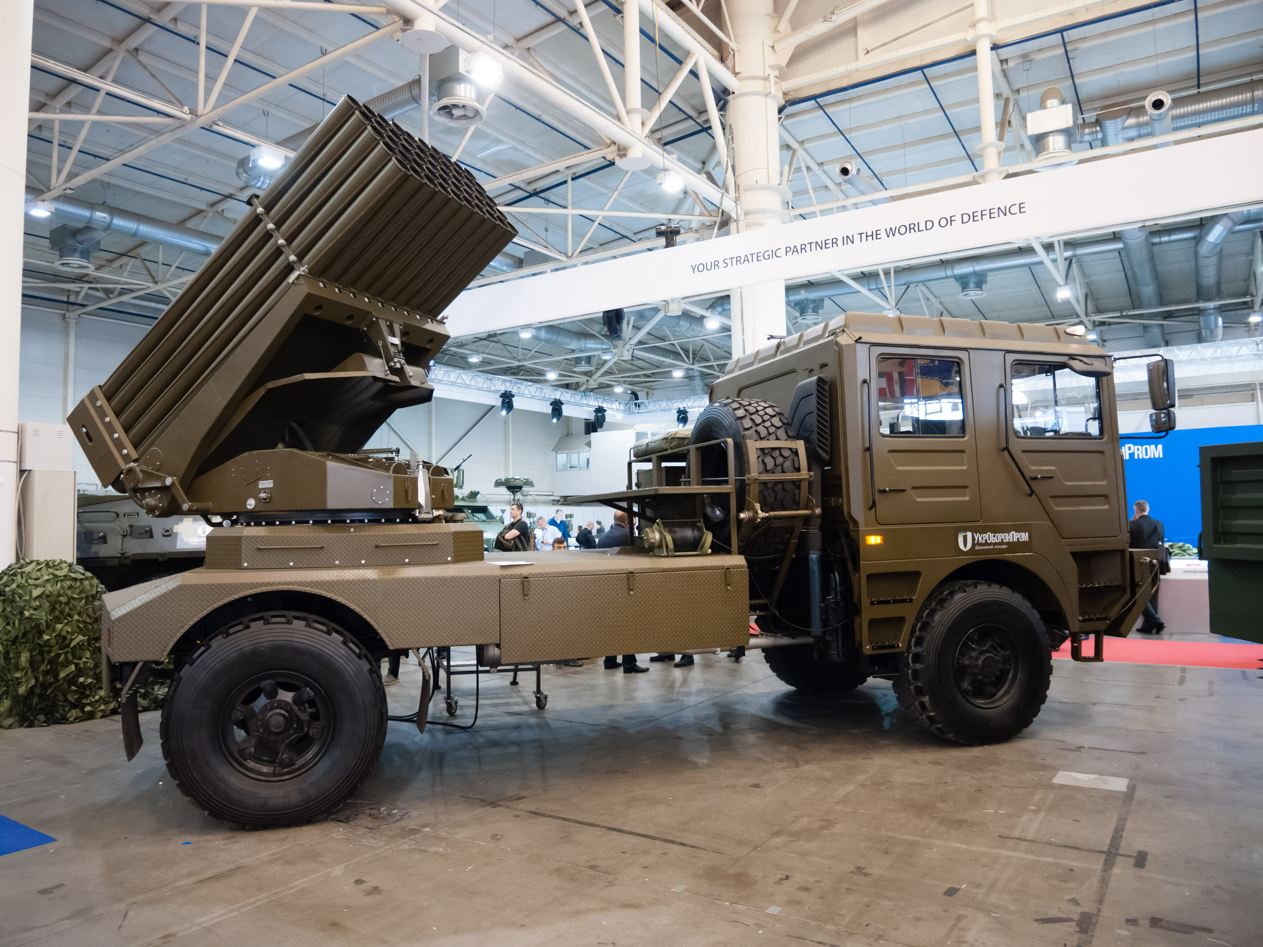 BM-21UM Berest Ukrainian MRLS, 'Zbroya ta Bezpeka' military fair, Kyiv, Ukraine, 2018